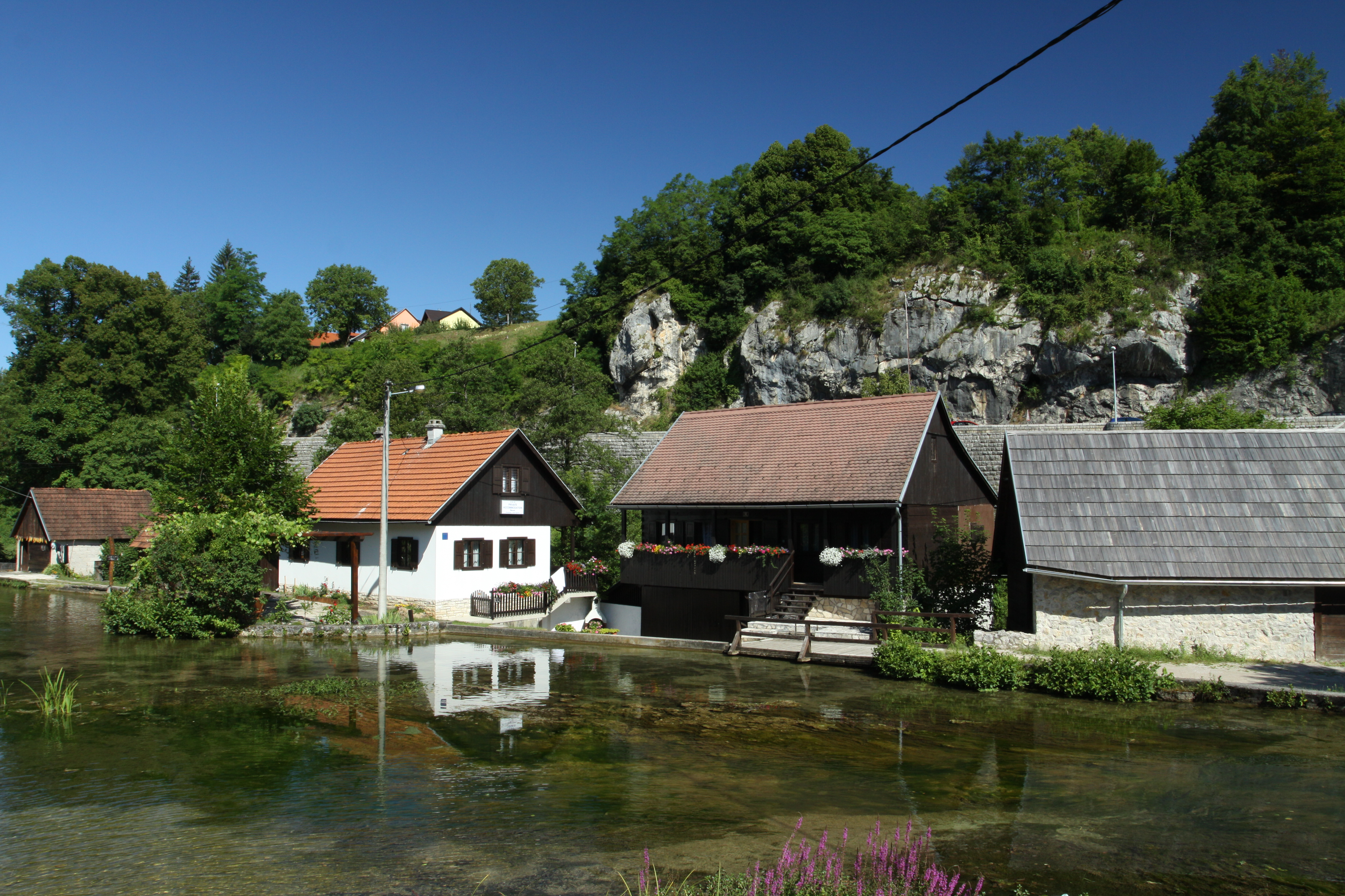 Rastoke in municipality of Slunj, Croatia